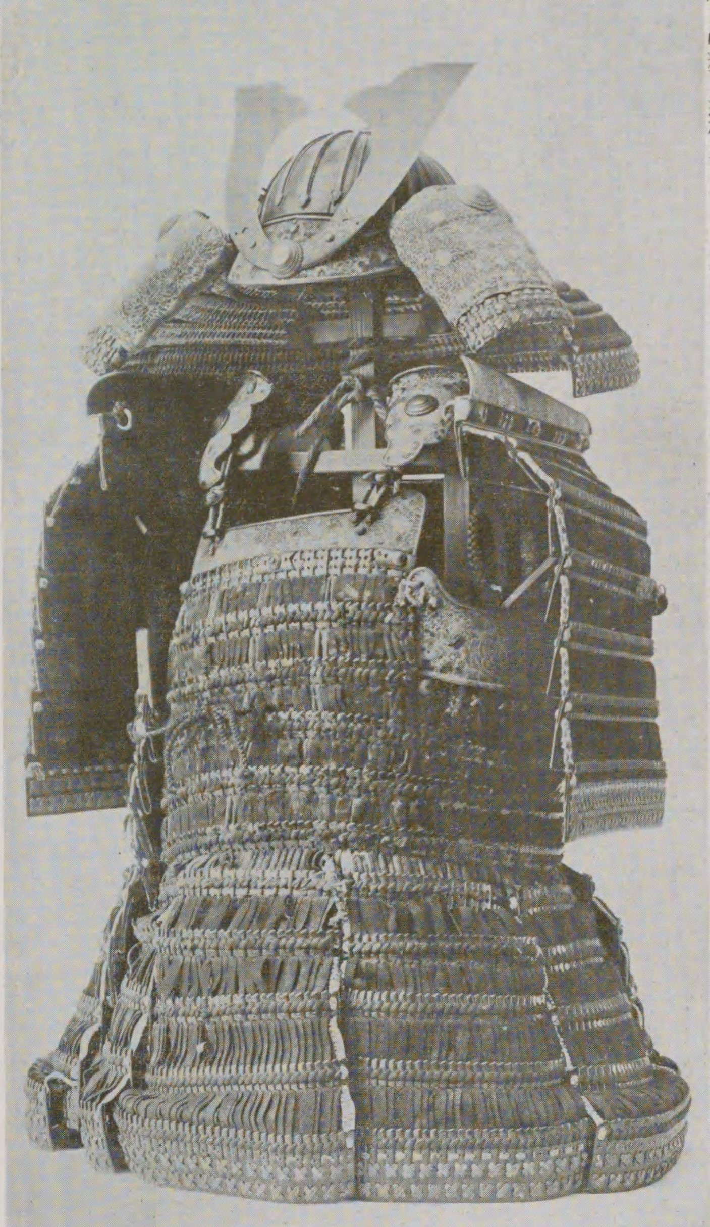 Kuro-gawa Odoshi Yahazu-zane Domaru of Kasuga-taisha, Nara, Nara prefecture. A National Treasure of Japan.